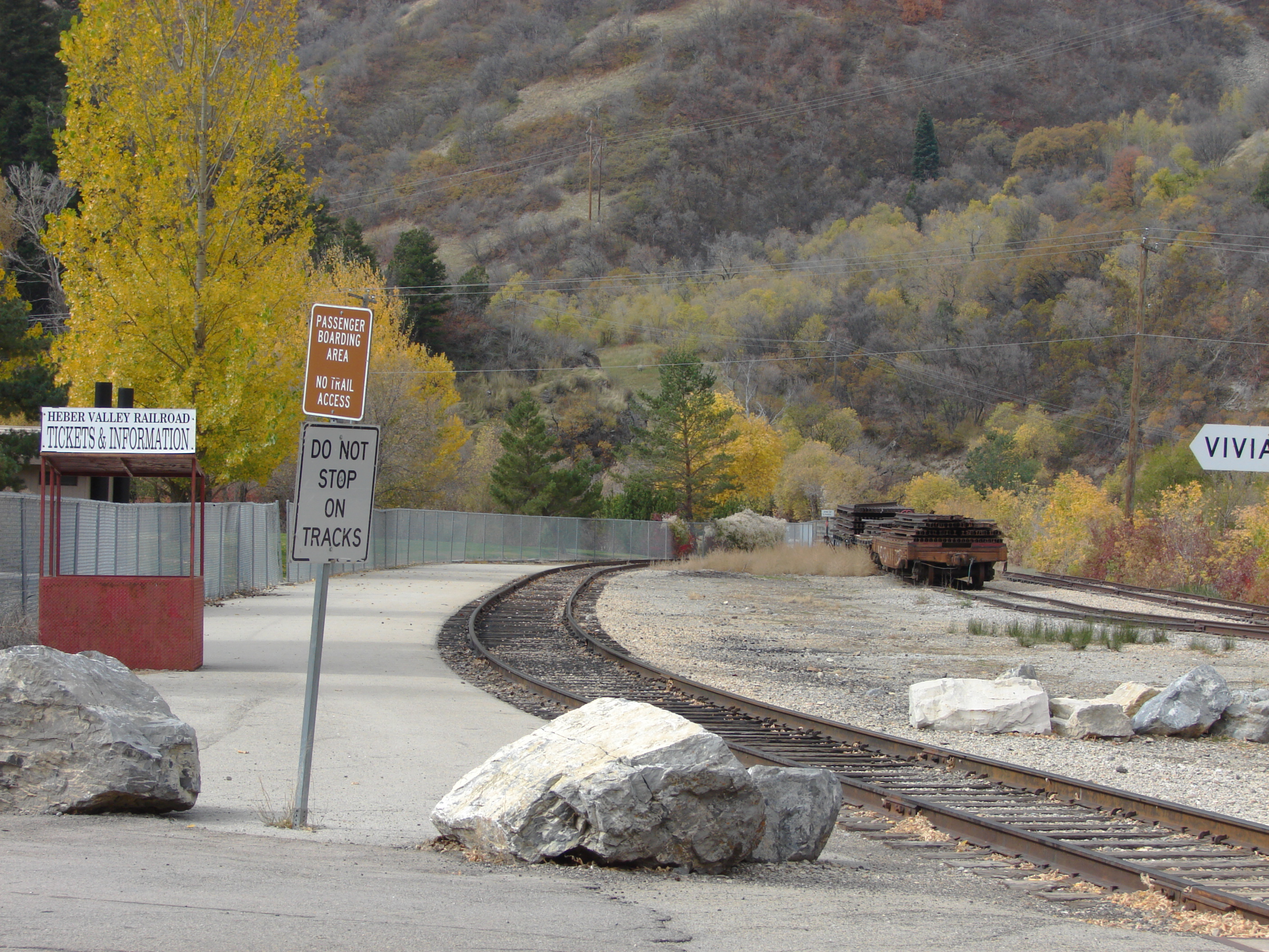 The passenger boarding area of the Vivian Park station of the Heber Valley Historic Railroad, October 2015